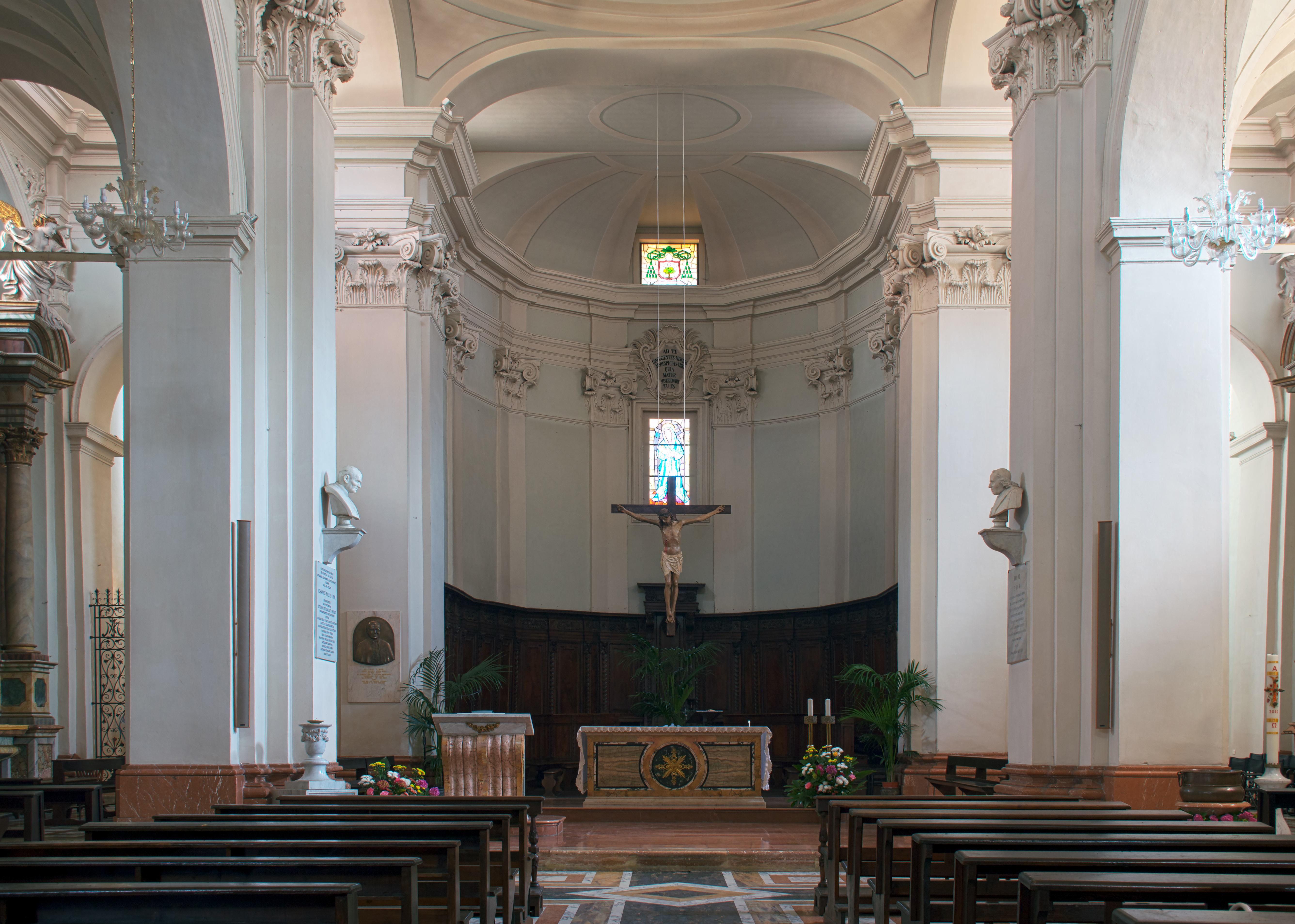 Cathedral (Norcia) - intern